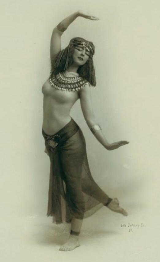 Dancer Ruth St Denis in Ancient Egyptian style costume, photographed by Otto Sarony, c. 1900.